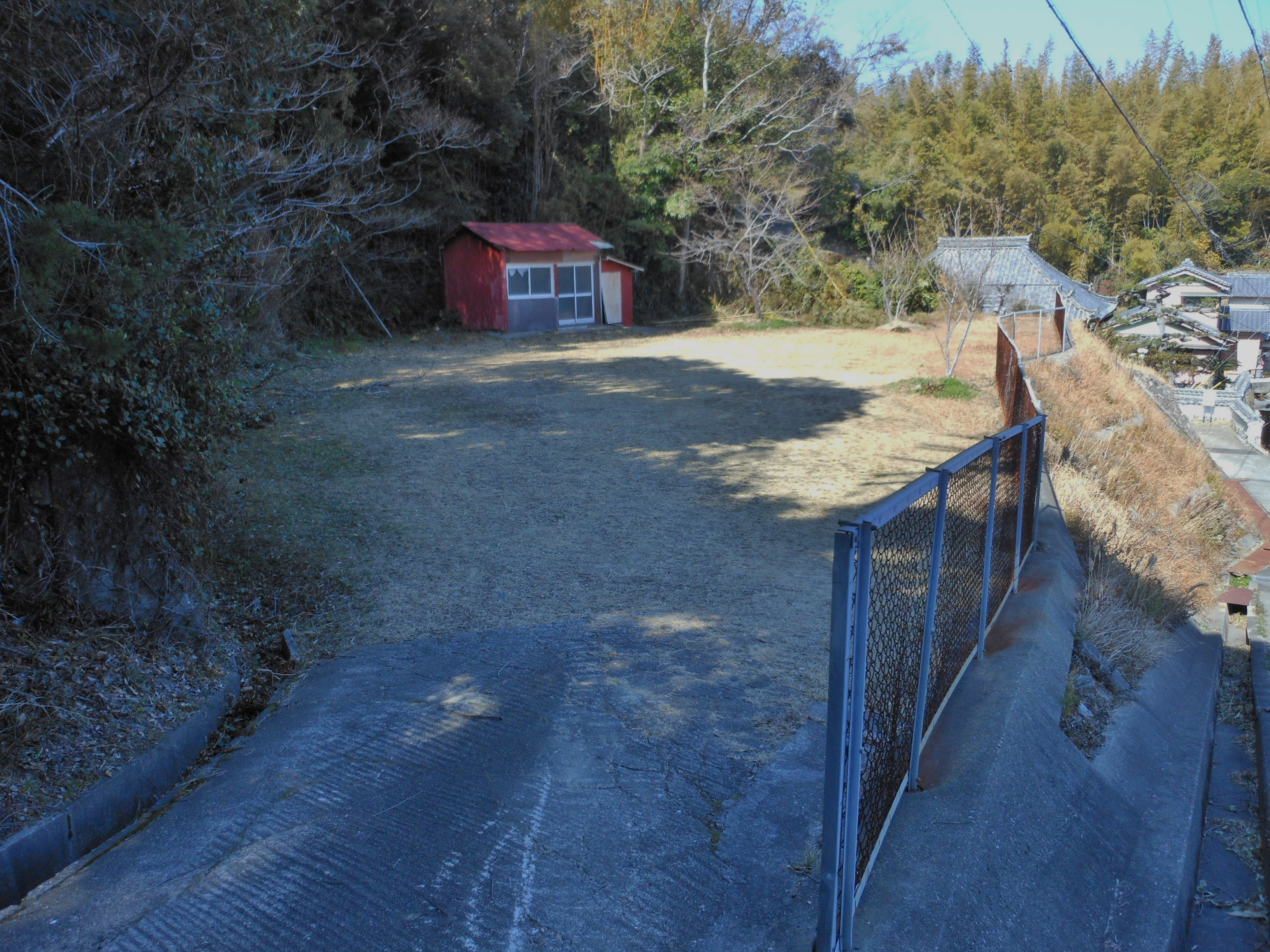 Here was the Shukuen-an temple. Here was also used Matoya elementary school.